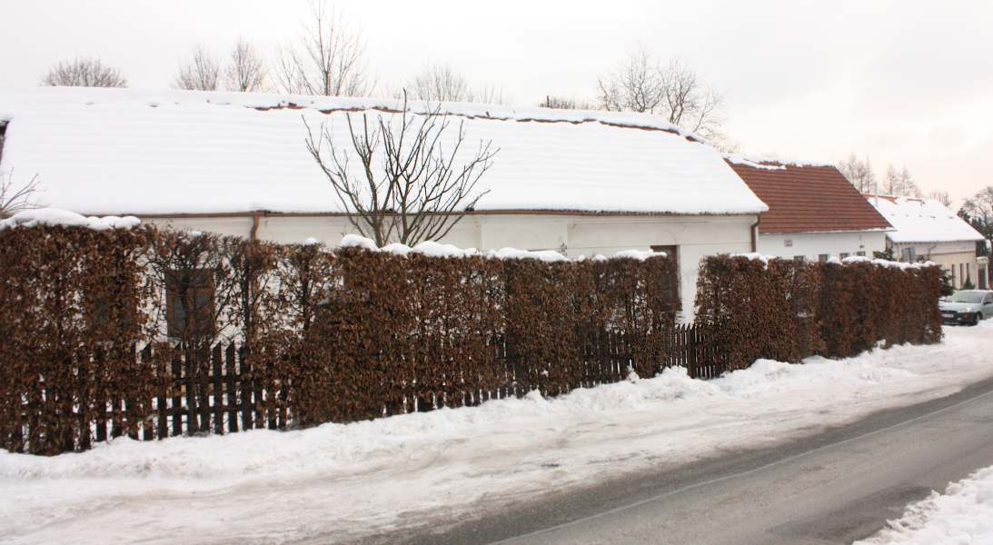 Carpinus betulus, hedge